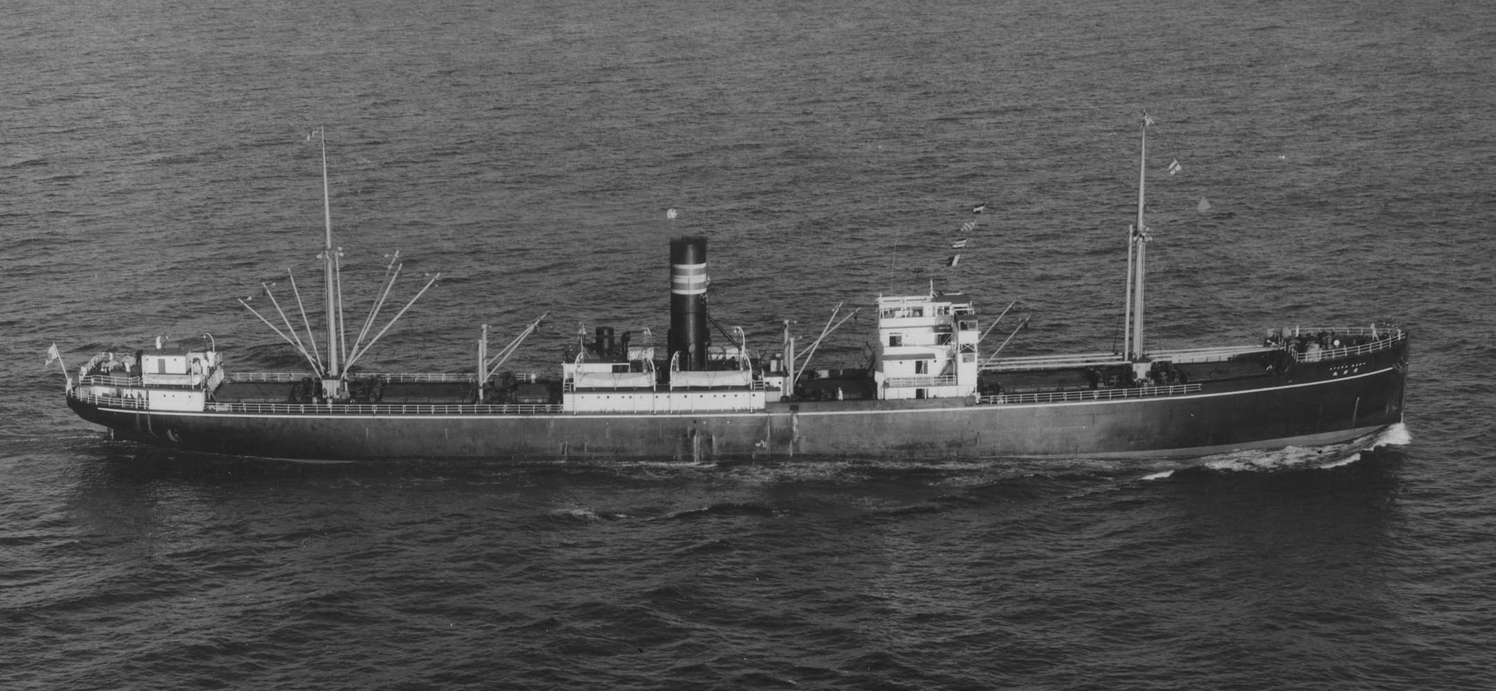 Atago Maru steaming near the Hawaiian Islands in October of 1937